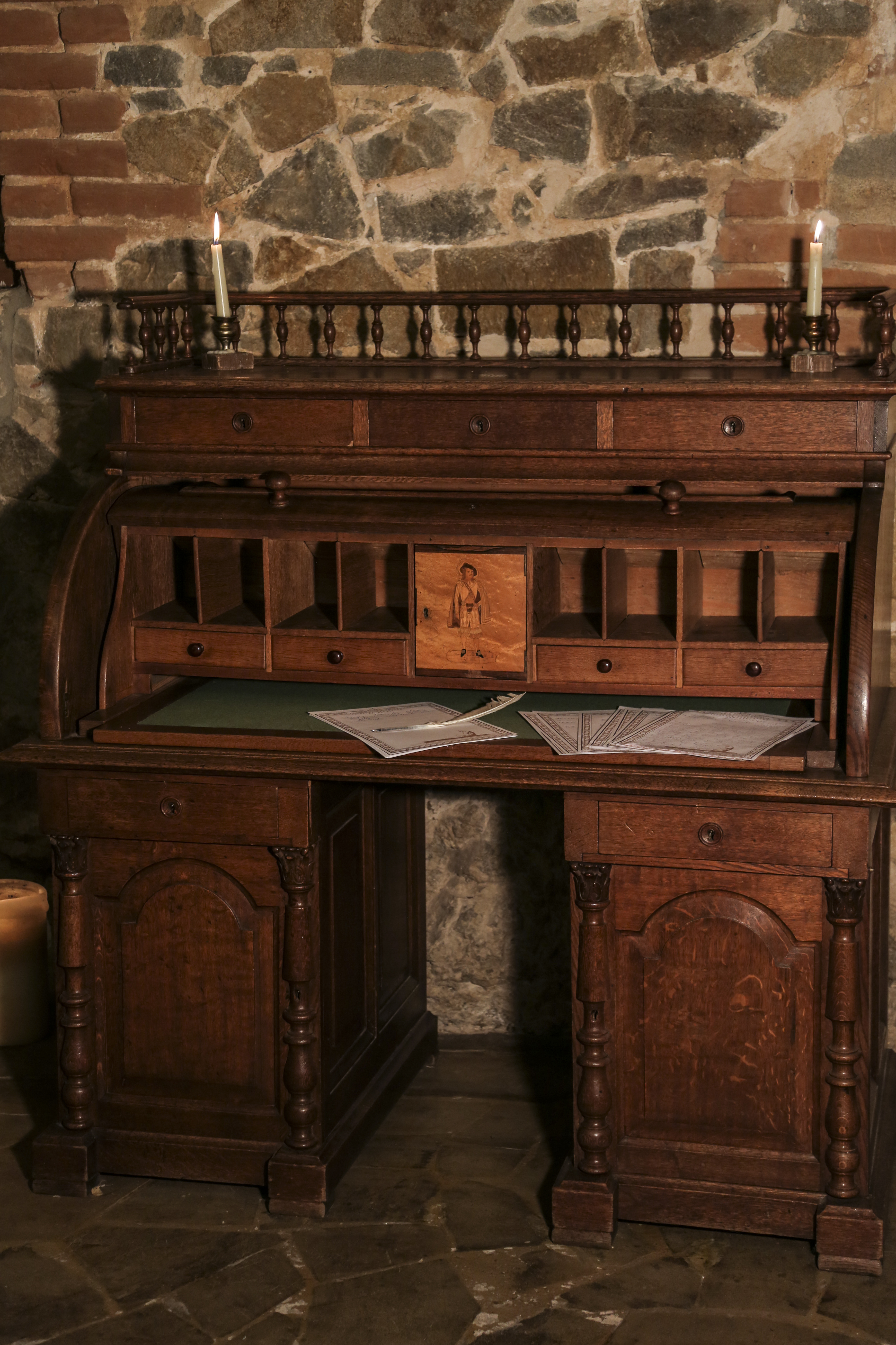 The 19th c. secretaire made in Holland. Radomysl Castle, Ukraine